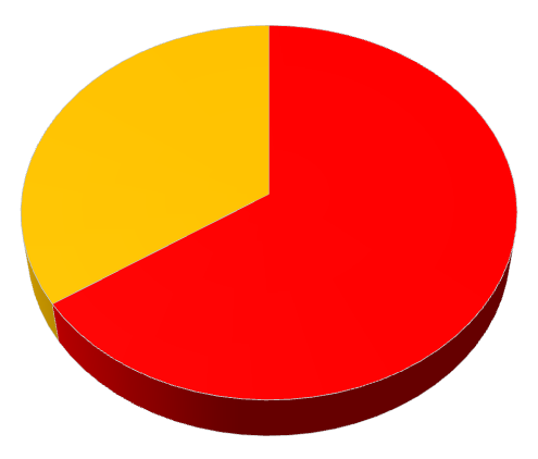 Expressed as a pie chart in the Ibaraki gubernatorial election in 2013, the number of votes for each candidate. explanatory notes ■ - Masaru Hashimoto ■ - Shigehiro Tanaka